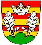 Coat of Arms of Fellen